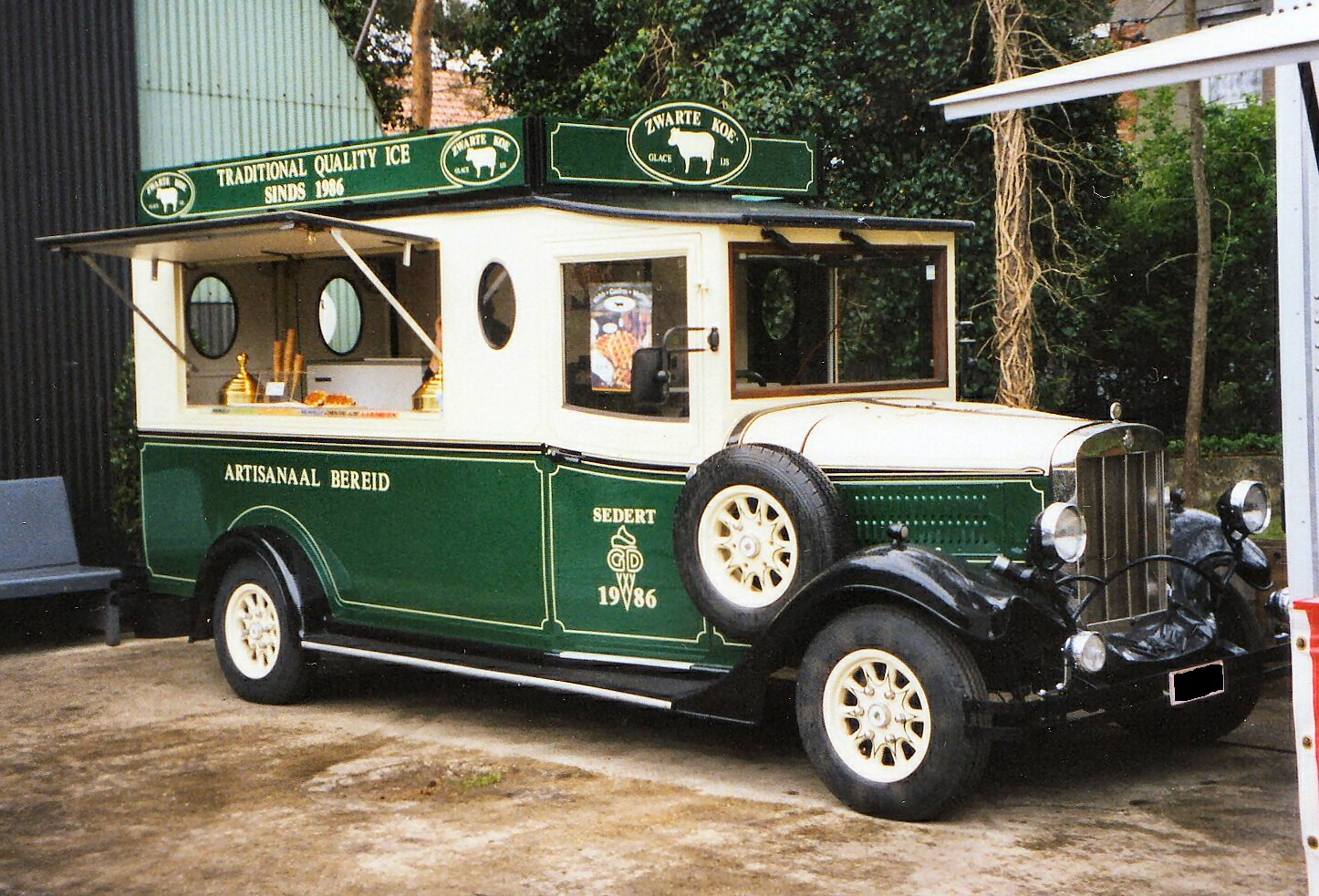 Asquith "Vintage" Van used as ice-cream selling facility. British company Asquith startet converting Ford Transits in vintage looking Vans in December 1982. Vintage cars are commonly used as ice-cream and waffle selling facilities in Belgium. This particular one was photographed during Stoomfestival (Steam festival) in Stoomcentrum Maldegem, a heritage railway in Belgium, in the town of Maldegen.